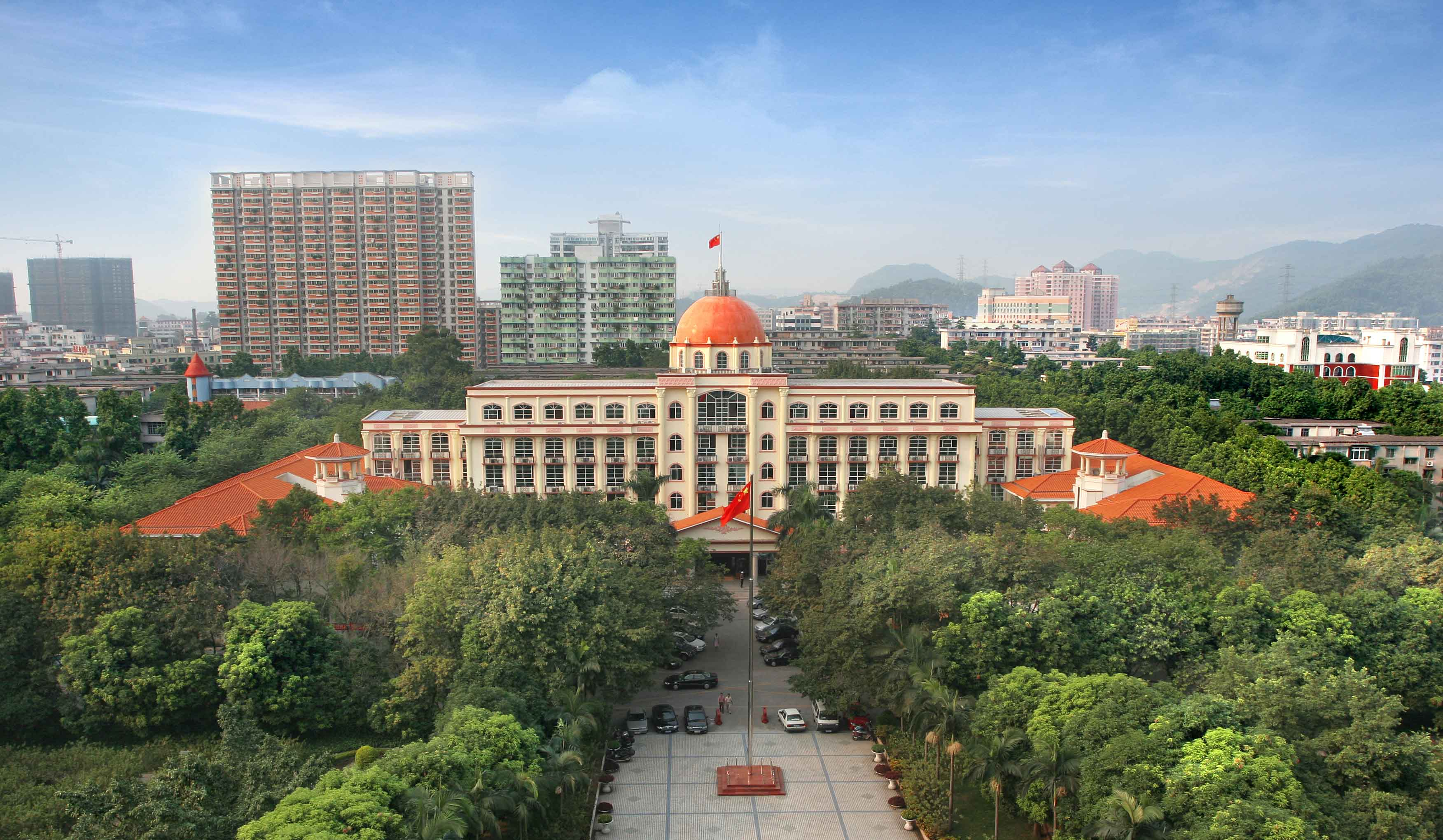 This is one of the two campuses of southern medical university.